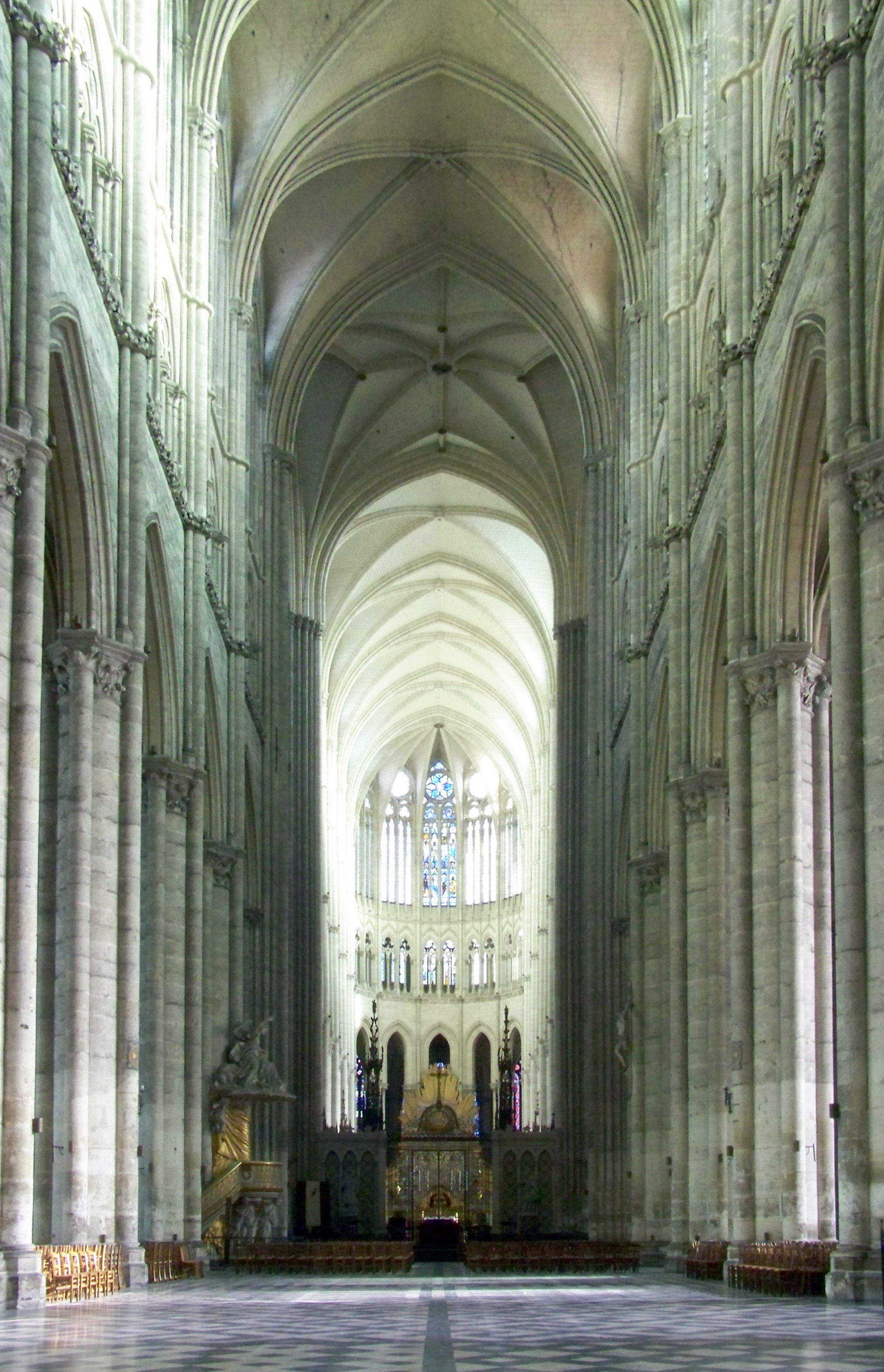 Nave and choir of the cathedral Notre-Dame in Amiens (Somme, Picardie, France).